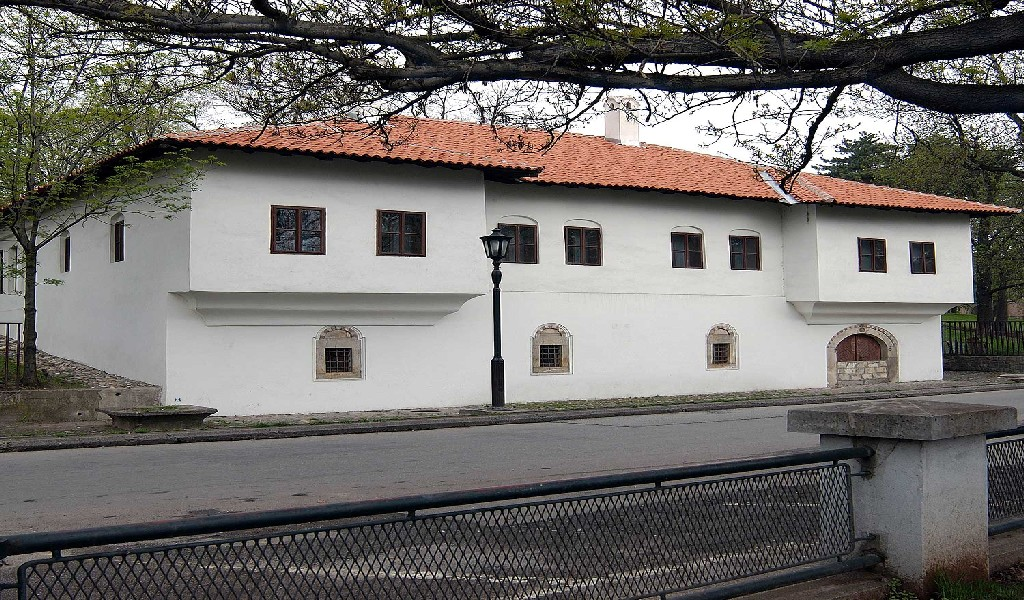 Front view of Amidža konak in Kragujevac